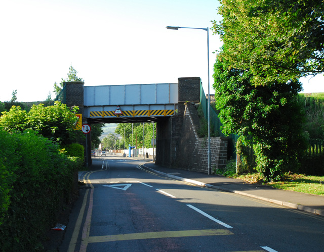 Railway Bridge over Dwr-y-Felin Road. The bridge carries the main South Wales to London railway between Skewen and Neath.